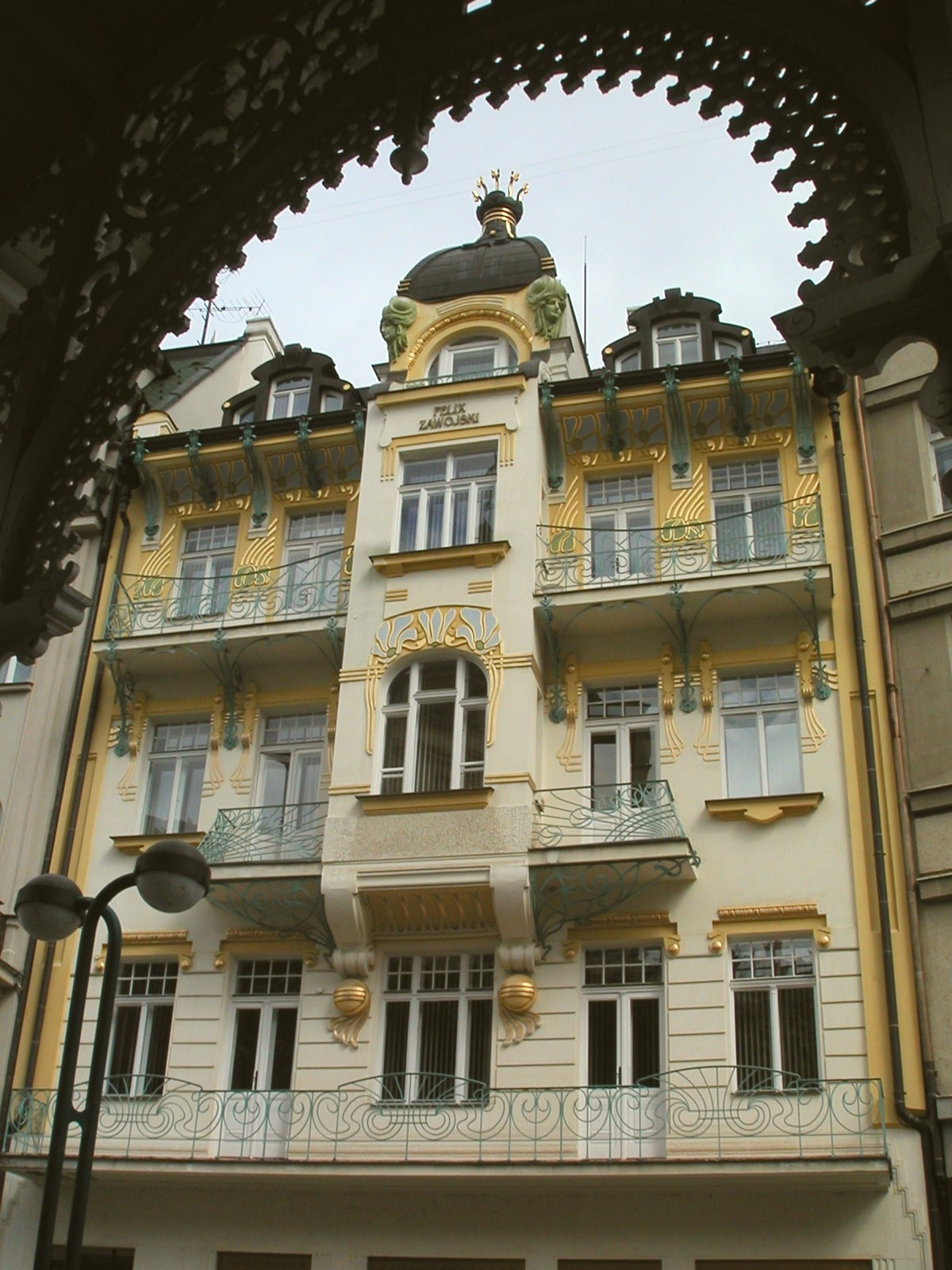 House Felix Zawojski in Carlsbad (CZ), Art Nouveau